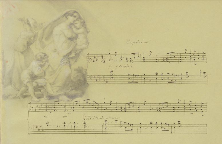 Beginning of April from the sutie 'Das Jahr', music by Fanny Mendelssohn Hensel, artwork by Wilhelm Hensel